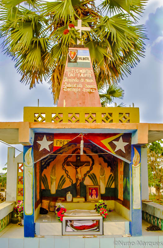 This memorial was erected to pay respect and to never forget the fallen freedom fighters of the FALINTIL